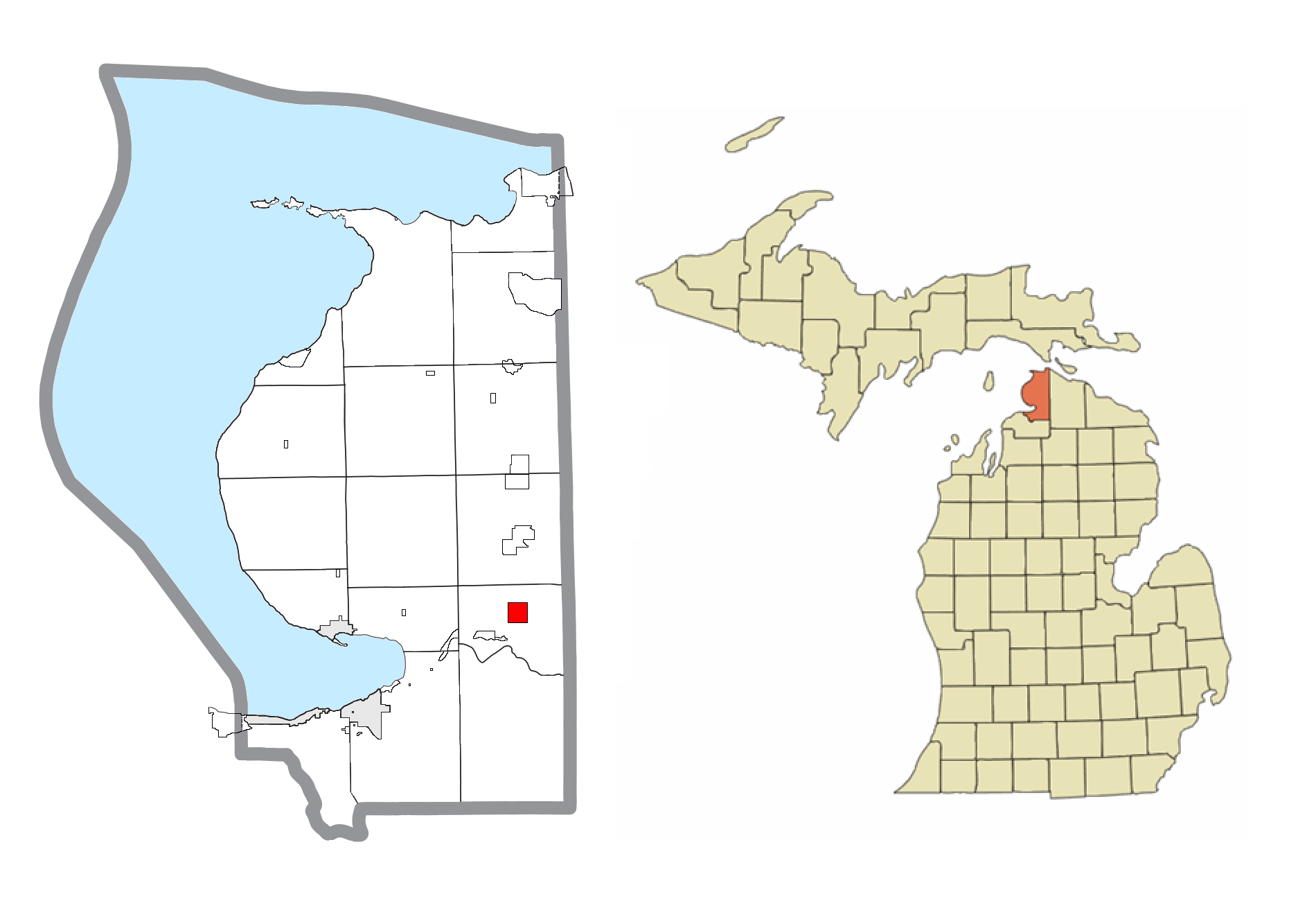 Alanson, MI